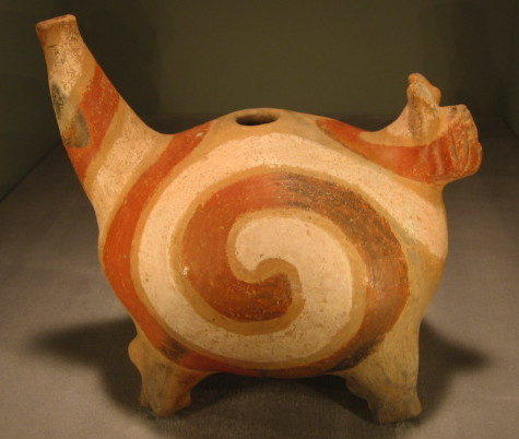 Ceramic of the Underwater Panther, from the Mississippian culture, 1400 - 1600, found in Rose Mound, Cross County, Arkansas, US. From the Smithsonian Museum of the American Indian, New York.